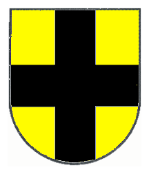 Coat of arms of Aachen diocese